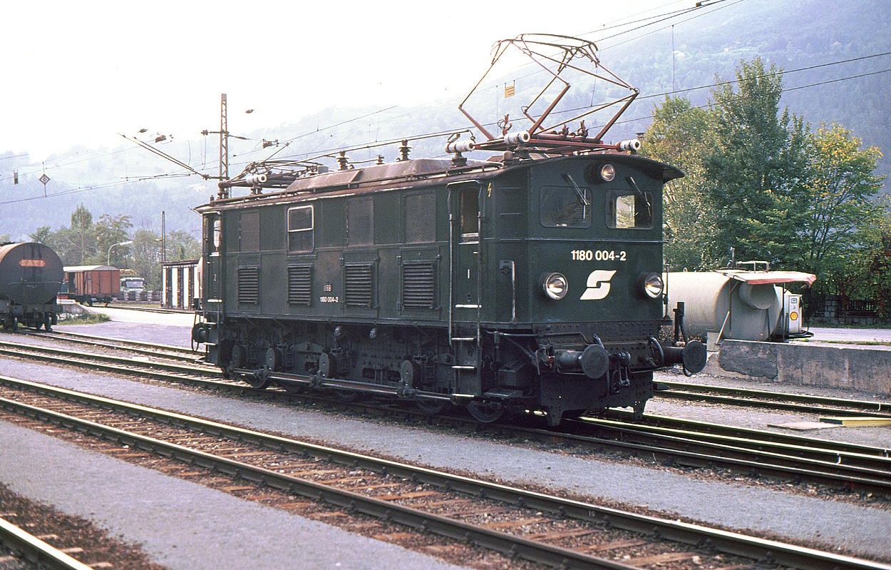 ÖBB 1180 004-2 at Landeck.